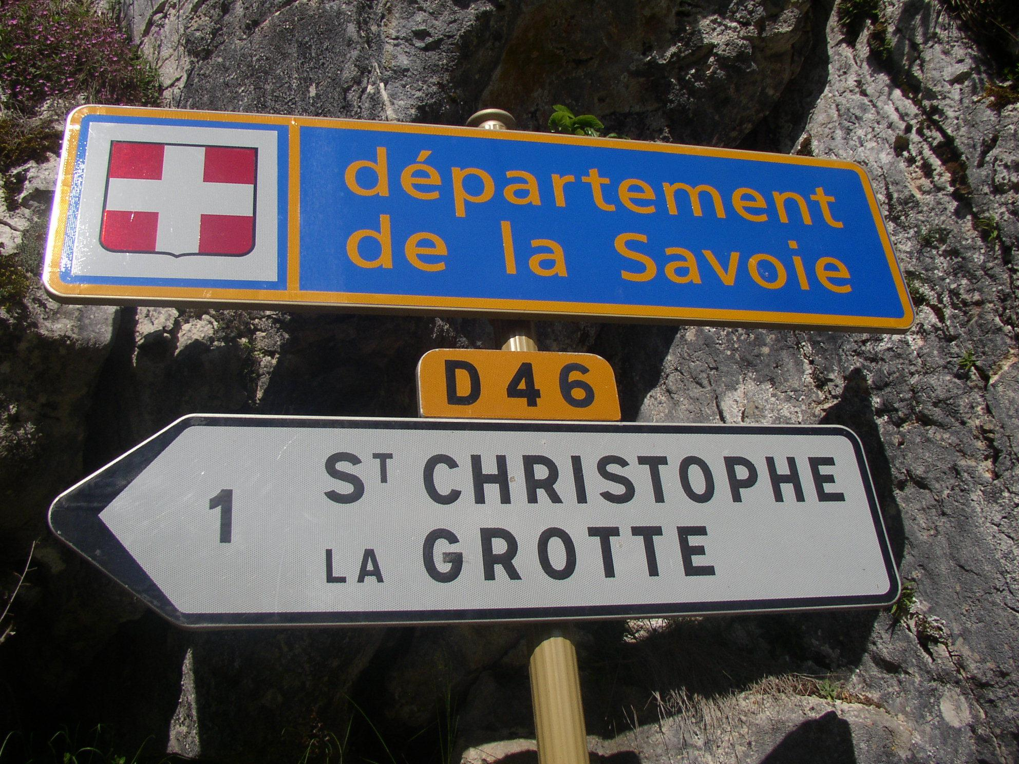 Entrance in the French "département" of Savoie.